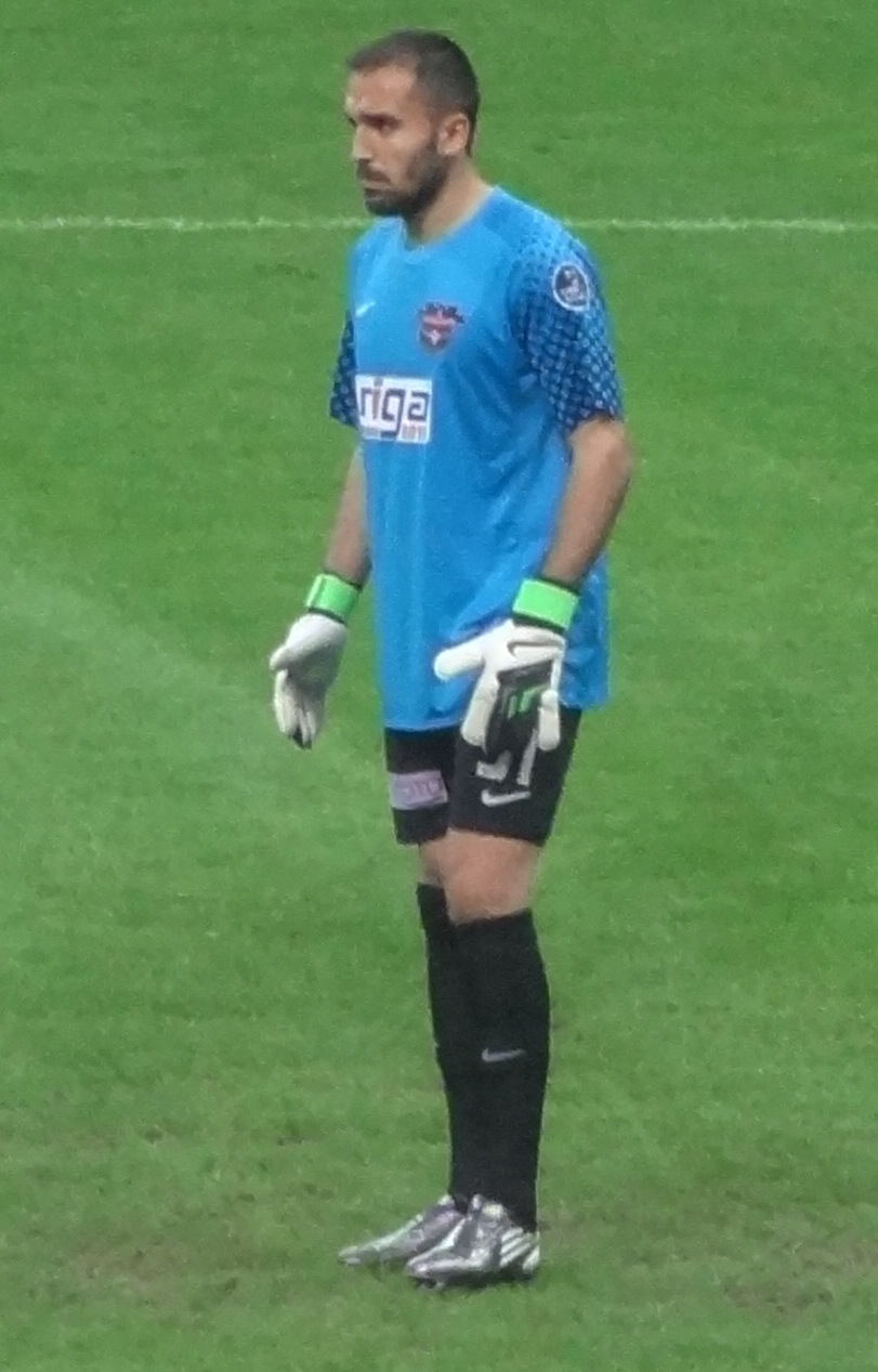 Mahmut against GS